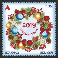 Postage stamp of Belarus